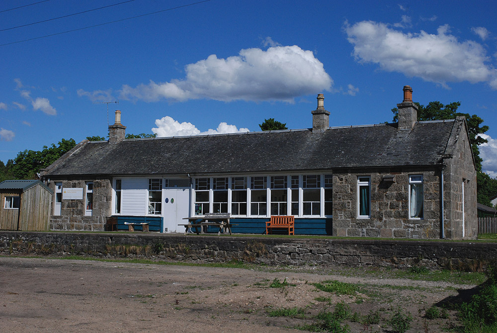 Nethy Bridge railway station An entirely characteristic structure of the Great North of Scotland Railway, it now serves as a bunkhouse, a useful option for those walking the Speyside Way which passes across the ground in front.